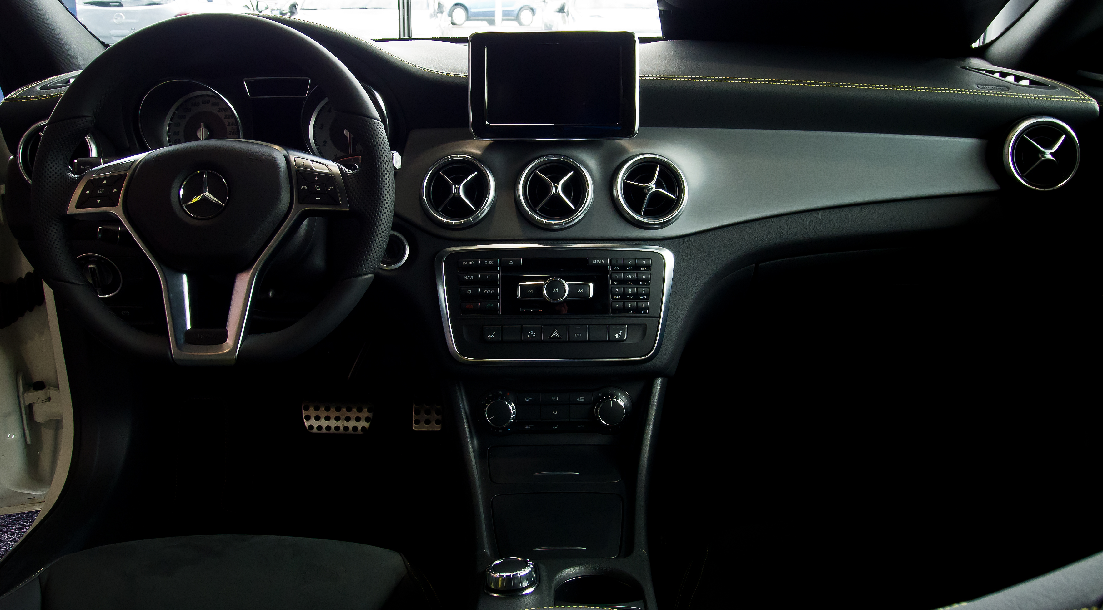 Mercedes-Benz CLA 200 Edition 1 (C 117)